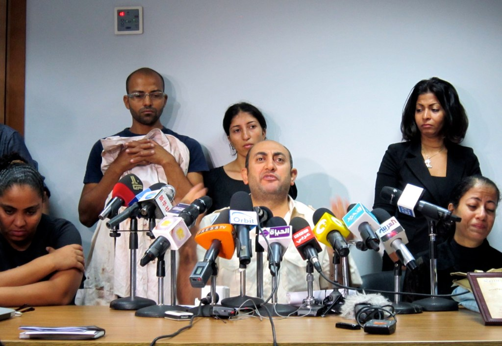 Families of martyrs together with anti-SCAF political groups responded to the Maspero massacre on black Sunday, Oct 9th, with a presentation of testimonies, videos, and medical reports of the murdered.